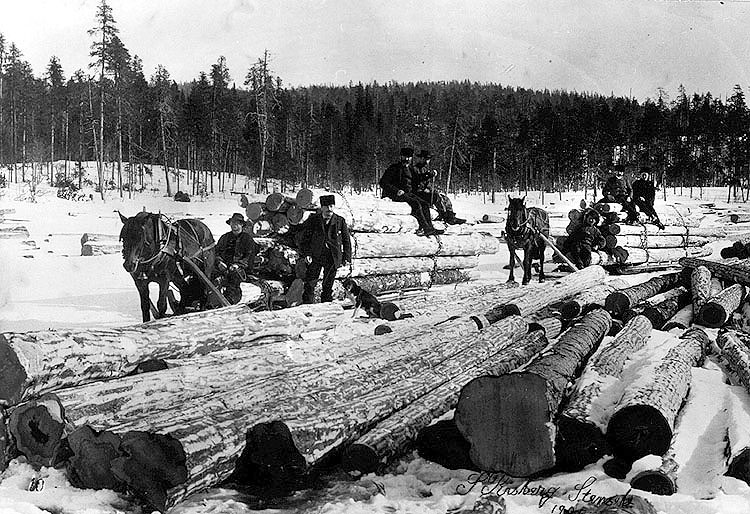 The Great Logging in Stensele, Sweden, 1905, when nearly a million timber trees were cut during nine years. Here the timber is laid on the ice of a lake or a river, from where it will be floated down to the coast.